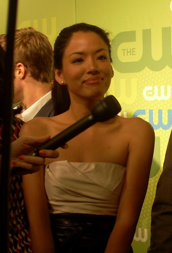 Stephanie Jacobsen – CW Upfront Presentation: Green Carpet Arrivals, Madison Square Garden, New York City.